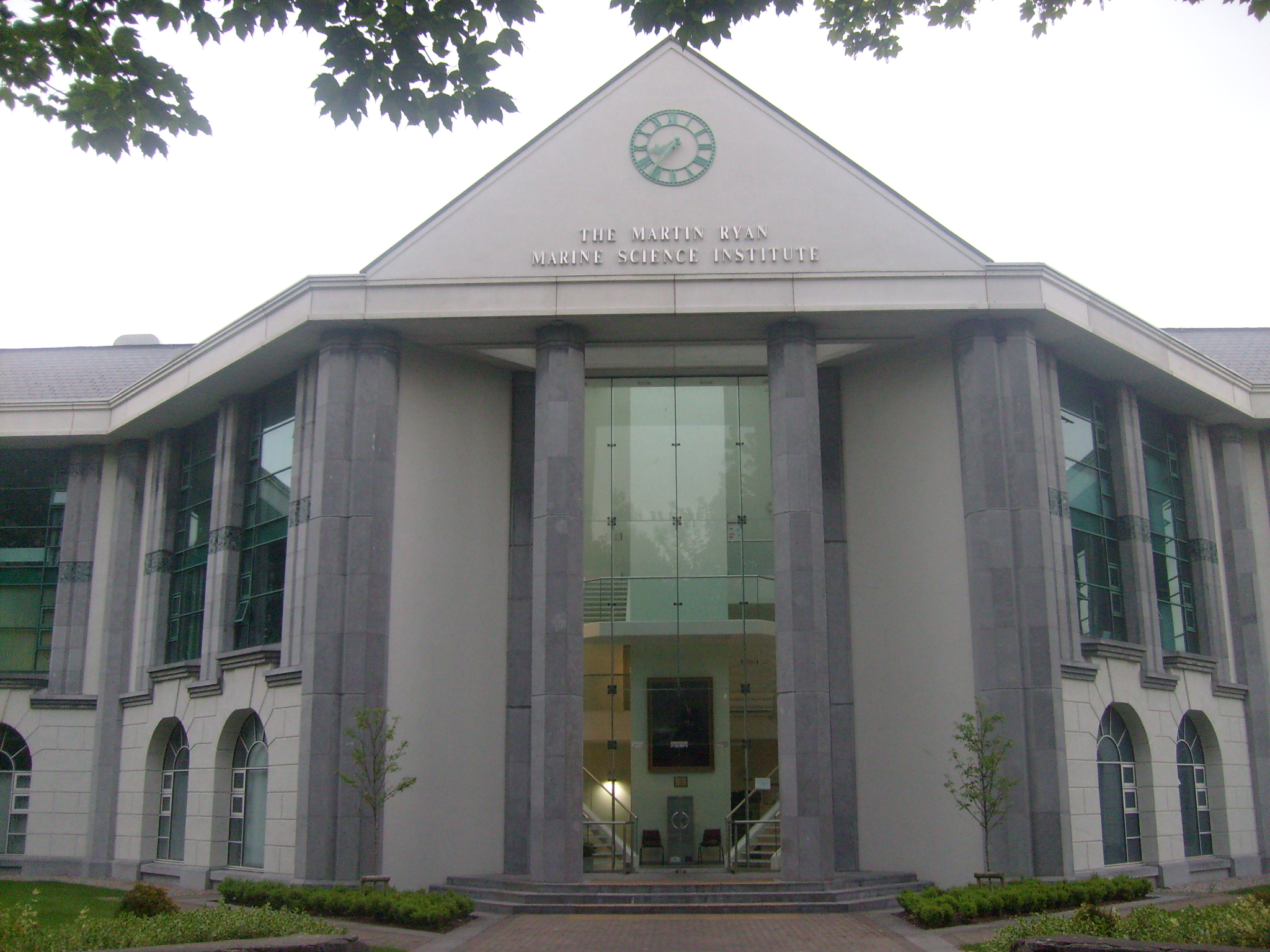 The Ryan Institute, NUI Galway, Éire